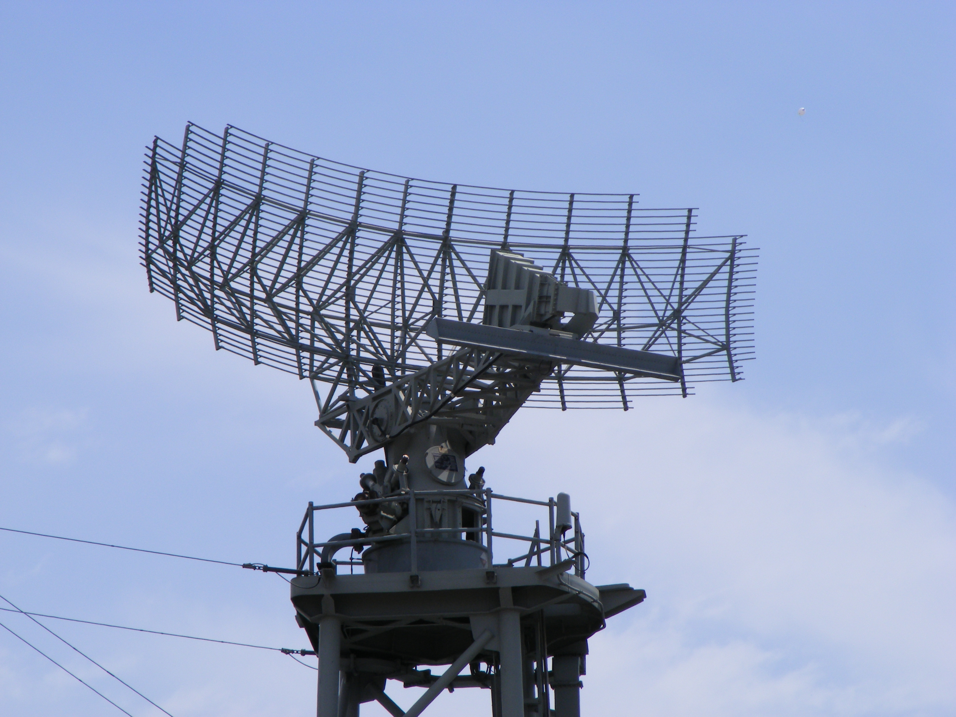 The main radar dish of HMAS Adelaide (FFG 01). Photo taken on an open day at Dock 2, Port Adelaide, South Australia